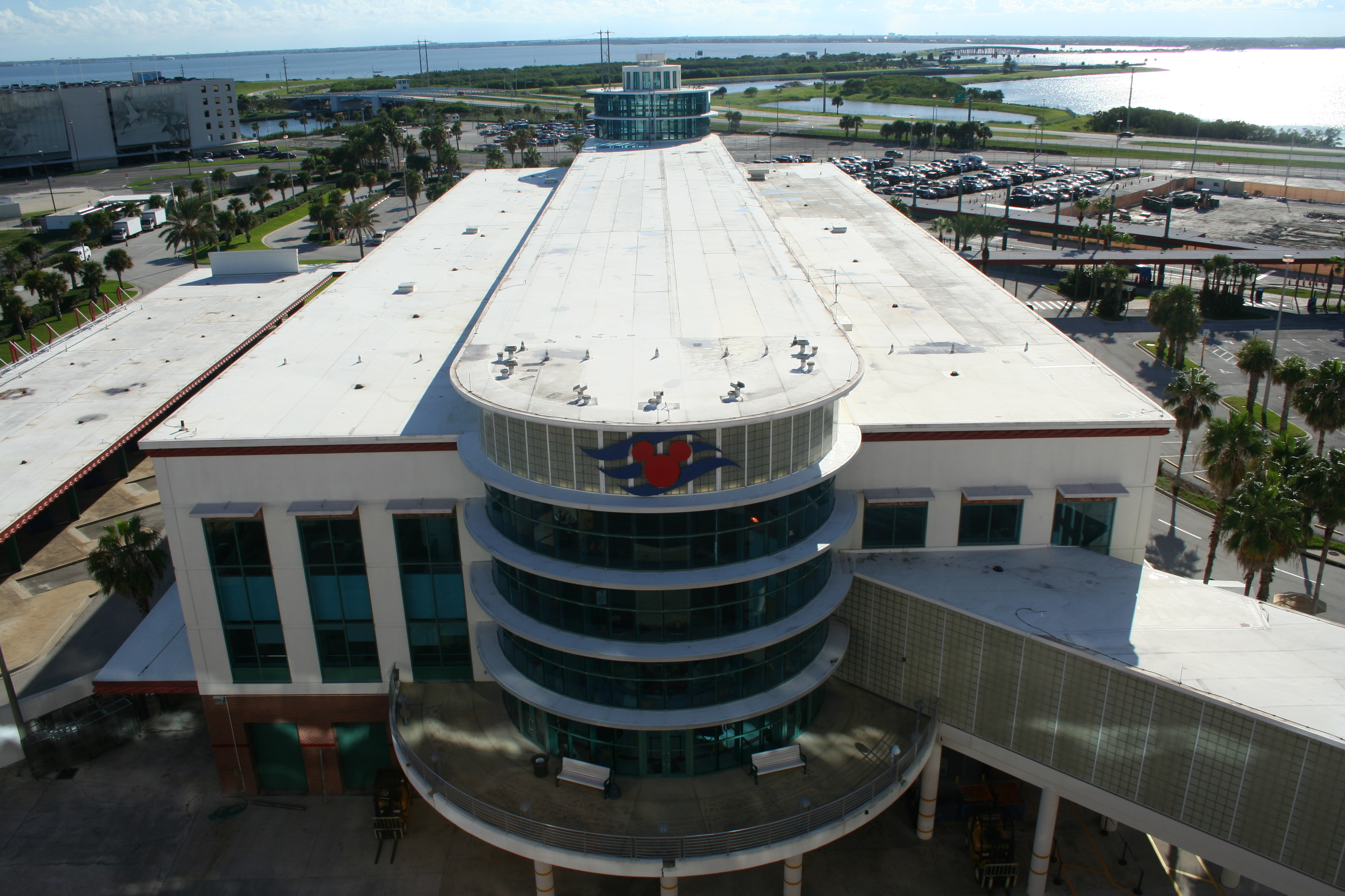 Taken from the Disney Wonder before departing on a cruise.